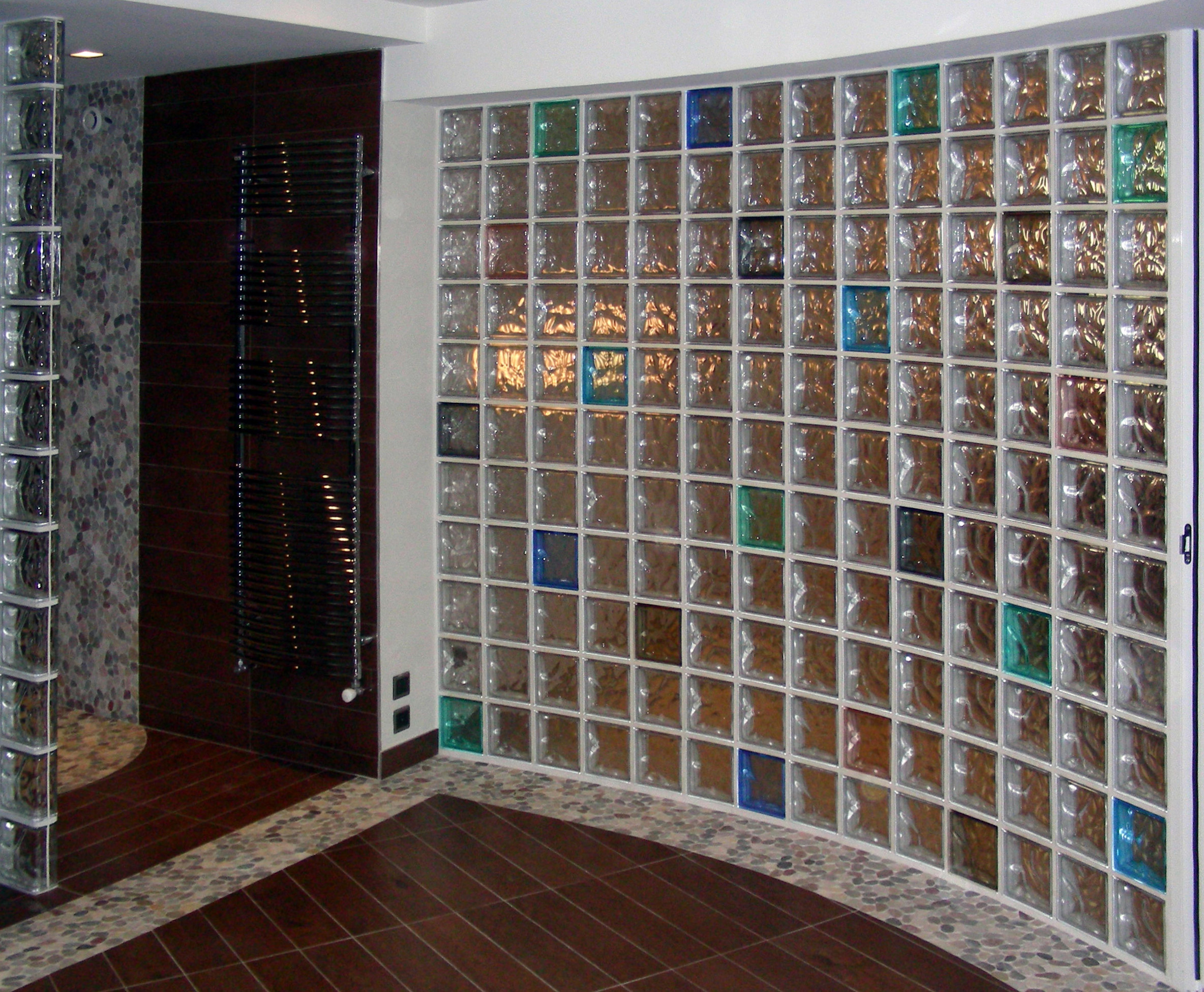 Wall rounded glass brick.